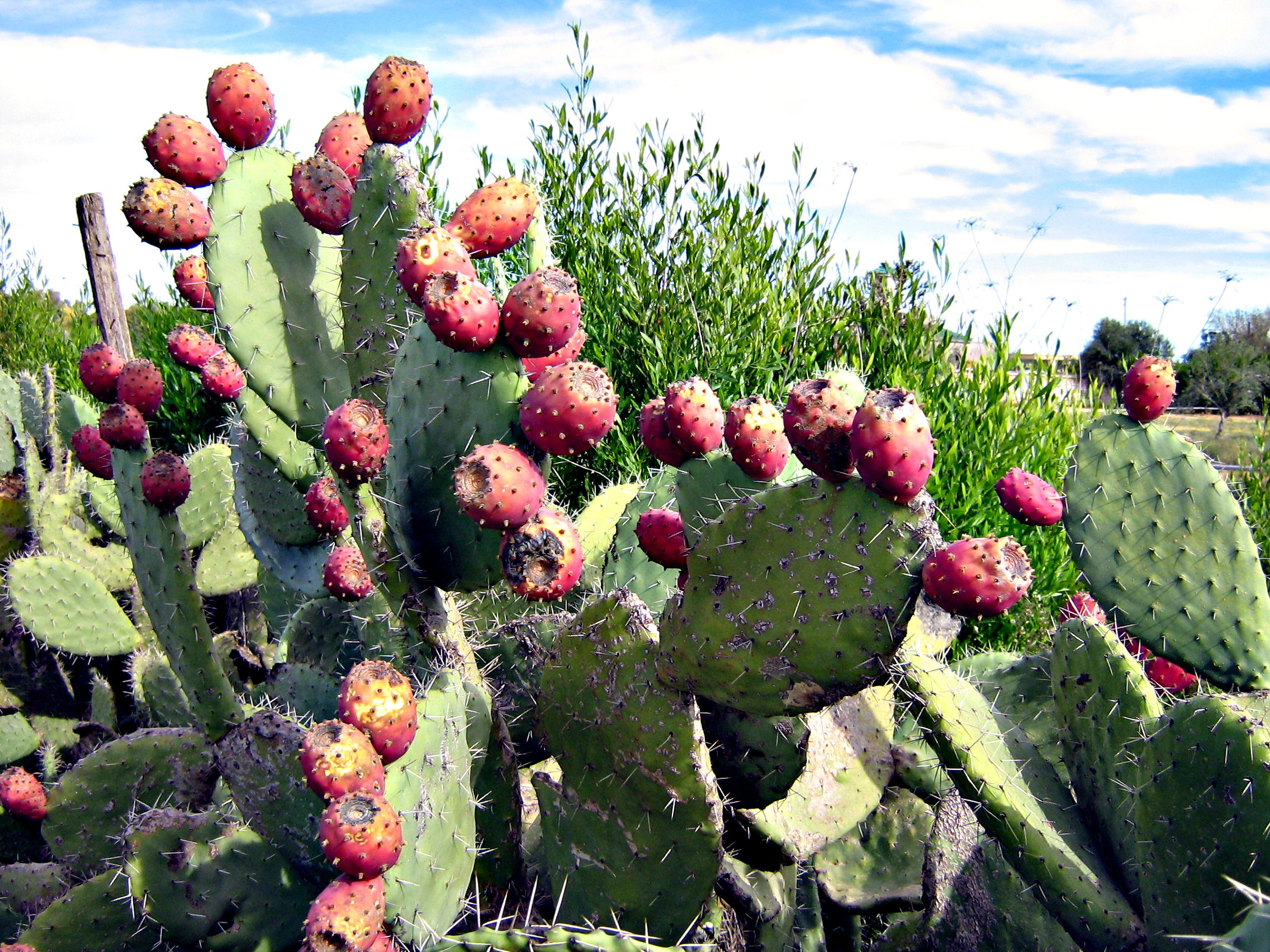 Opuntia cactus. Libya.